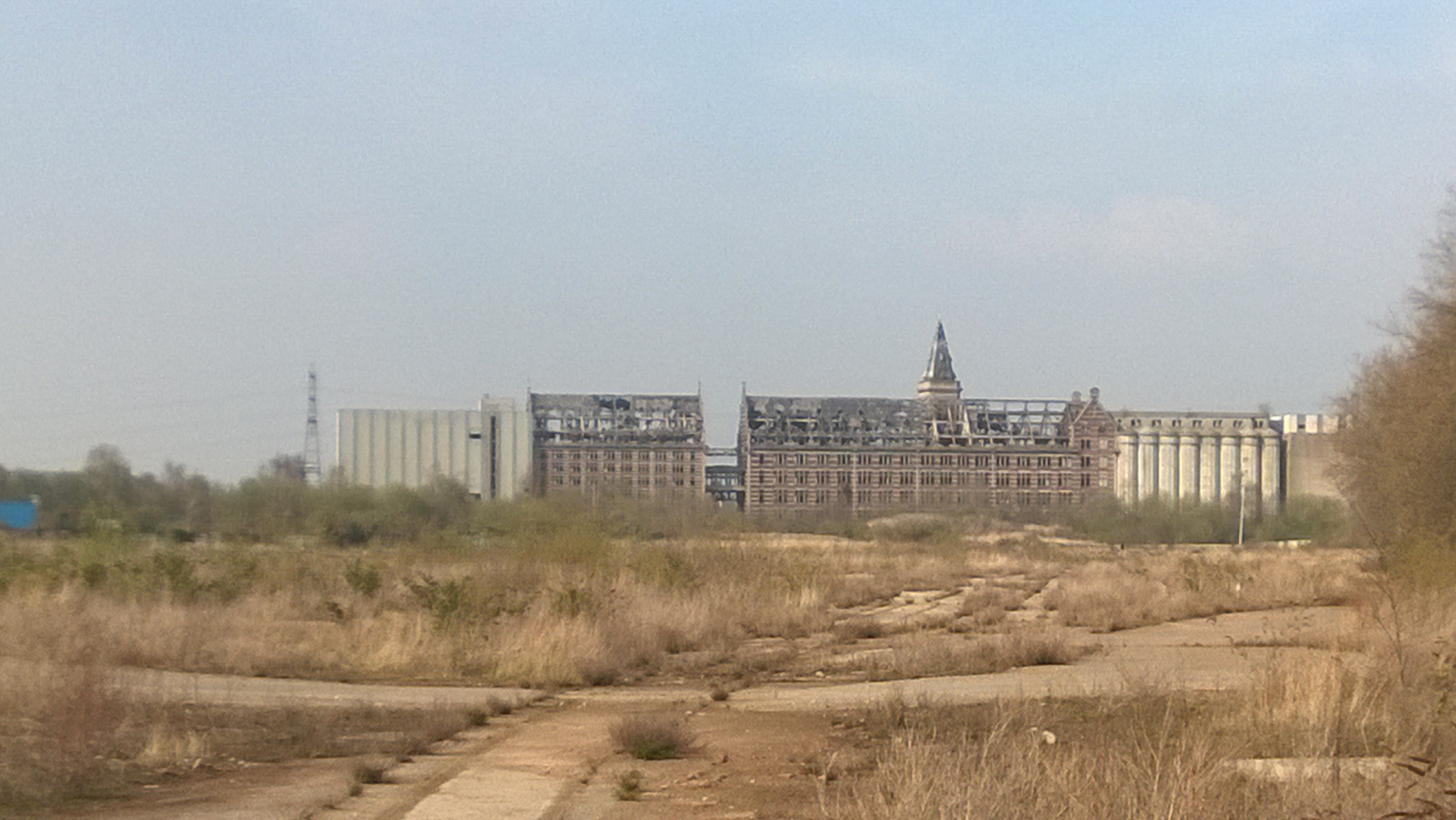 Urban wasteland at Marquette-Lez-Lille, France